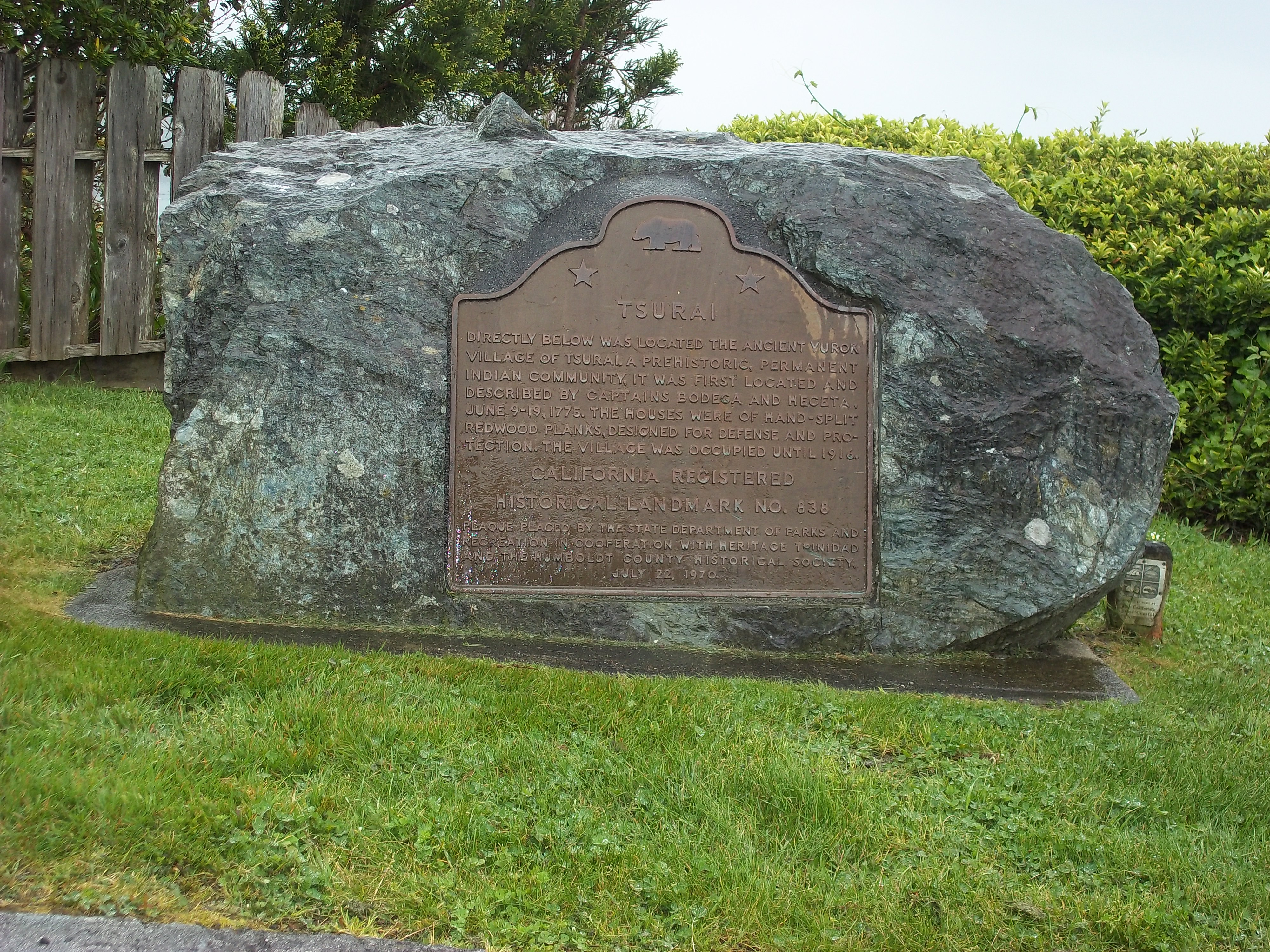 California Registered Historical Landmark No. 838: Old Indian village of Tsurai. Located in Trinidad, California this stone marker and plaque mark the former location of the indigenous Yurok settlement of Tsurai.